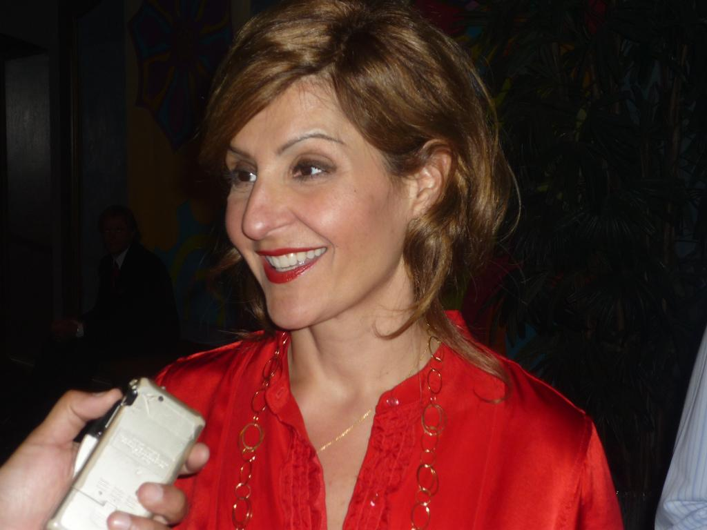 Actress Nia Vardalos at 2009 GLAAD Media Awards, Los Angeles.